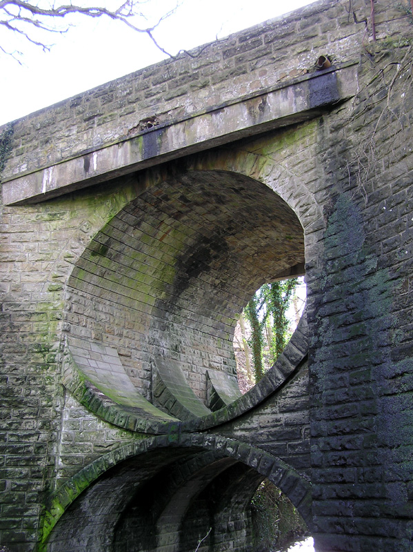 A stone road bridge designed by Thomas Telford, featuring an unusual circular arch design. The bridge spans the Bannock Burn in the village of Bannockburn near Stirling in Scotland. This photo taken March 22 en:2004 by Finlay McWalter. For a wider view, see Image:Wfm bannock burn bridge.jpg